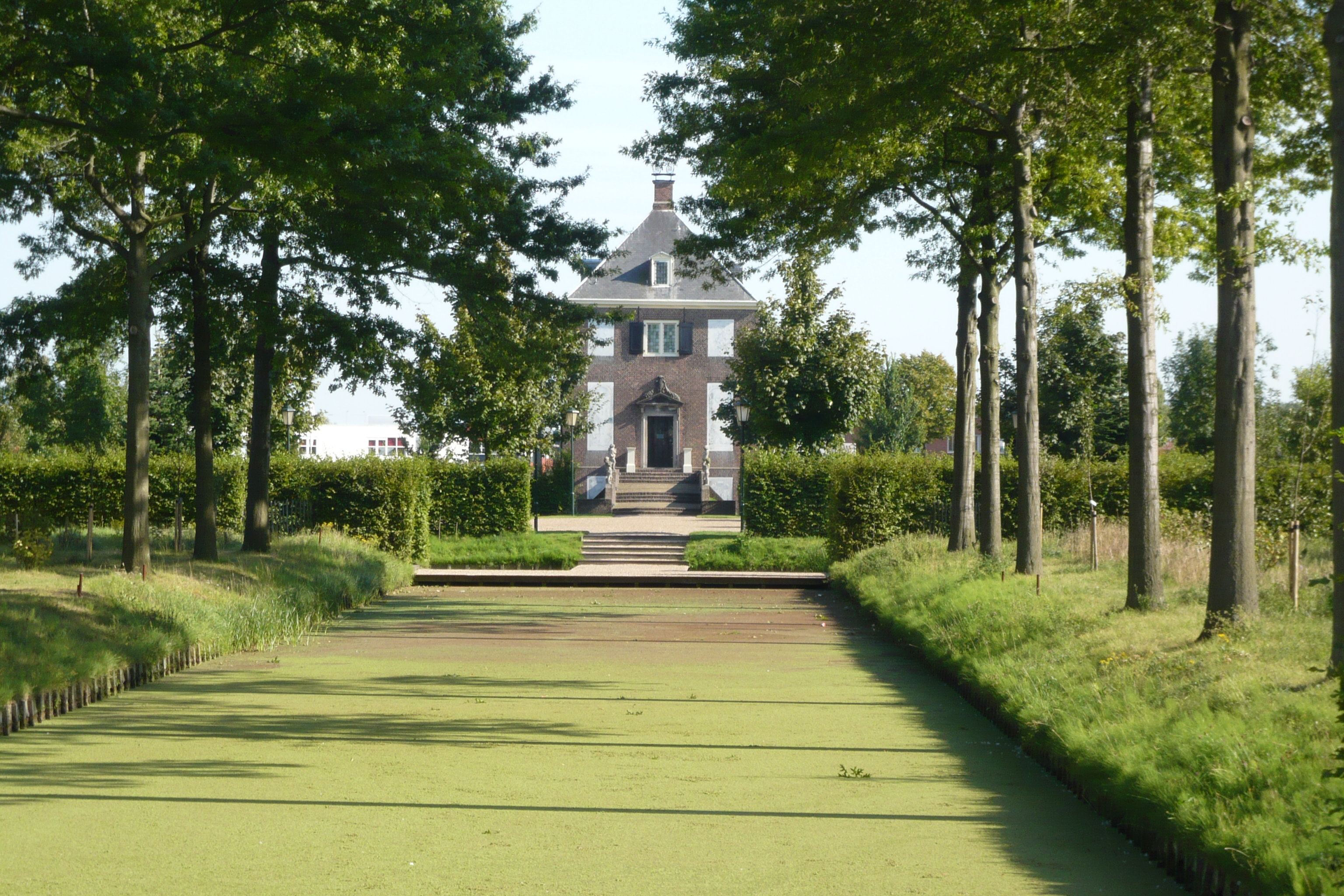 Hofwijck from east side.